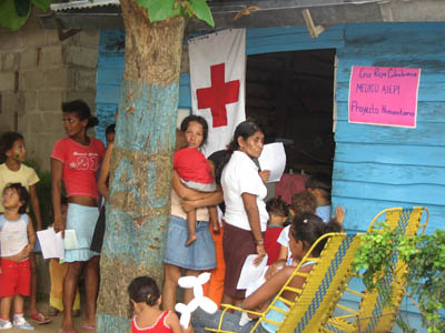 Colombia: Humanitarian Assistance to Refugees and Internally Displaced Persons